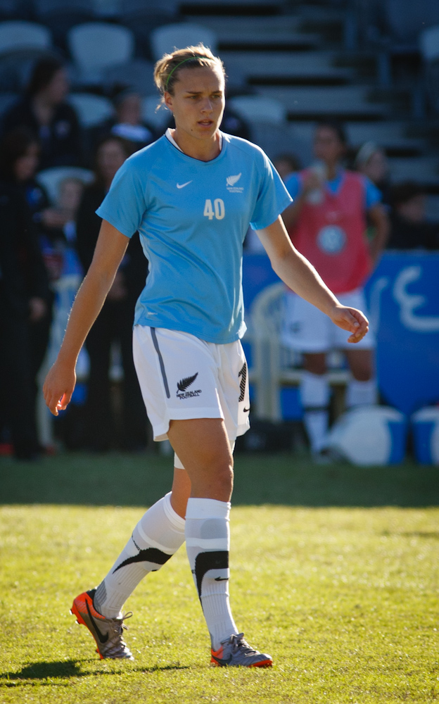 Hannah Wilkinson playing for the New Zealand women's national football team against Australia.